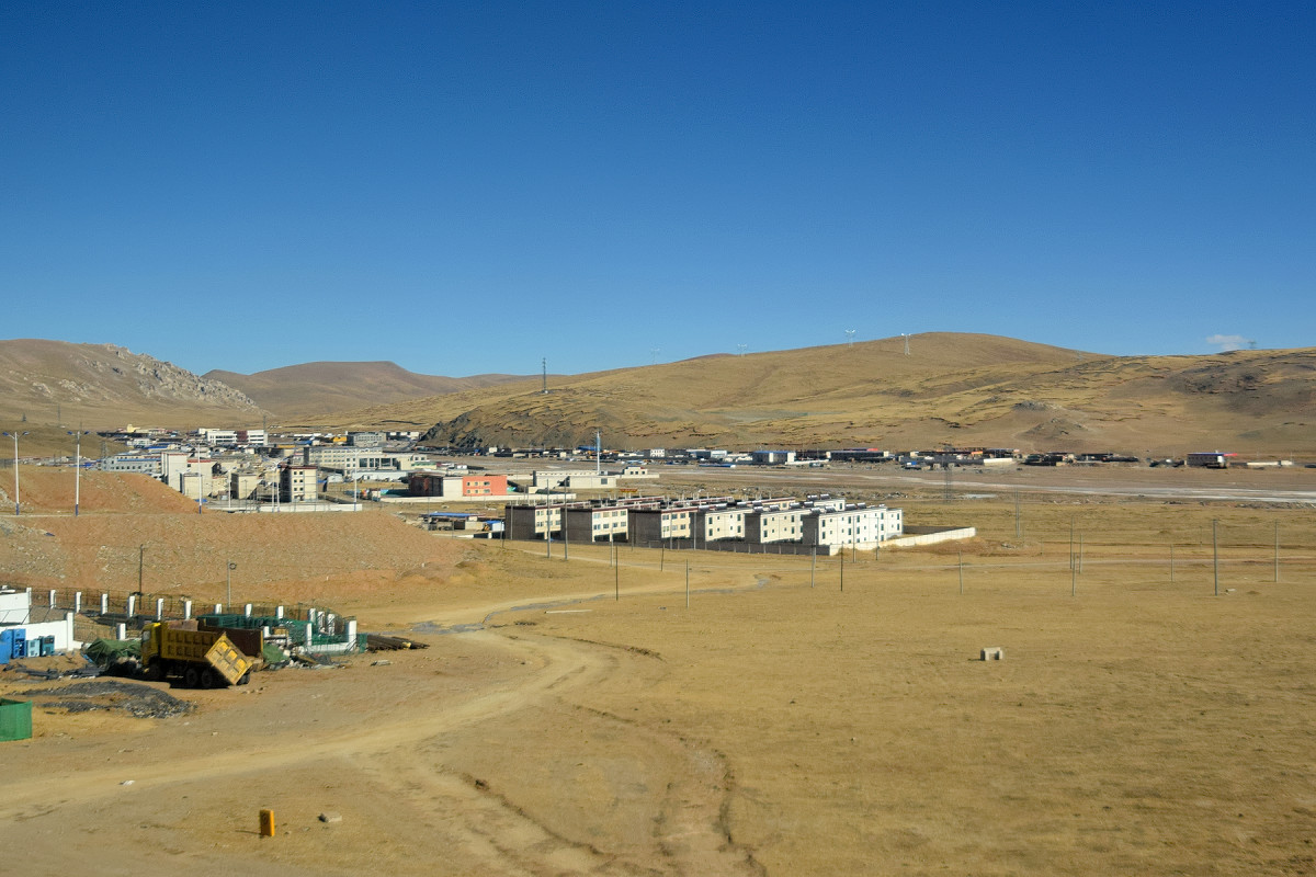 Pana Town, Amdo County (altitude ~4700m)